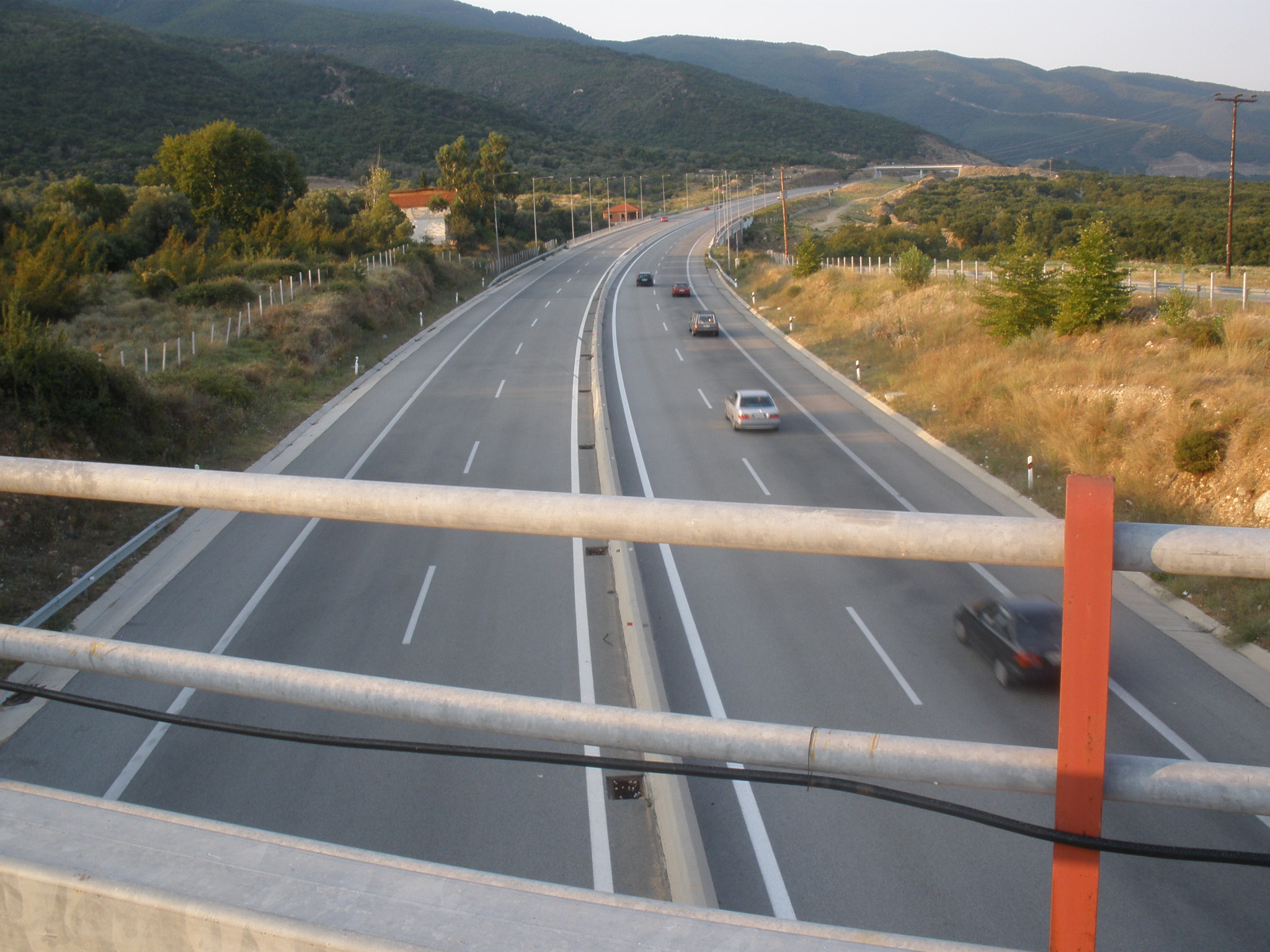 A picture of the motorway Egnatia Odos in Greece near the village of Asprovalta.